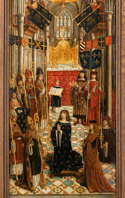 Coronation of Louis XII of France. (Paris, musée national du Moyan Âge-Thermes de Cluny, N°725)